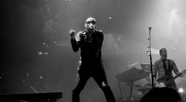 Linkin Park live in 2011, A Thousand Suns Tour.